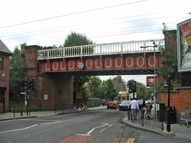 Bridge, Windmill Hill, Enfield. Bridge taking the railway over Windmill Hill (A110) near Enfield Chase Station. 966638 is the sign which you can see on the left side of the bridge.